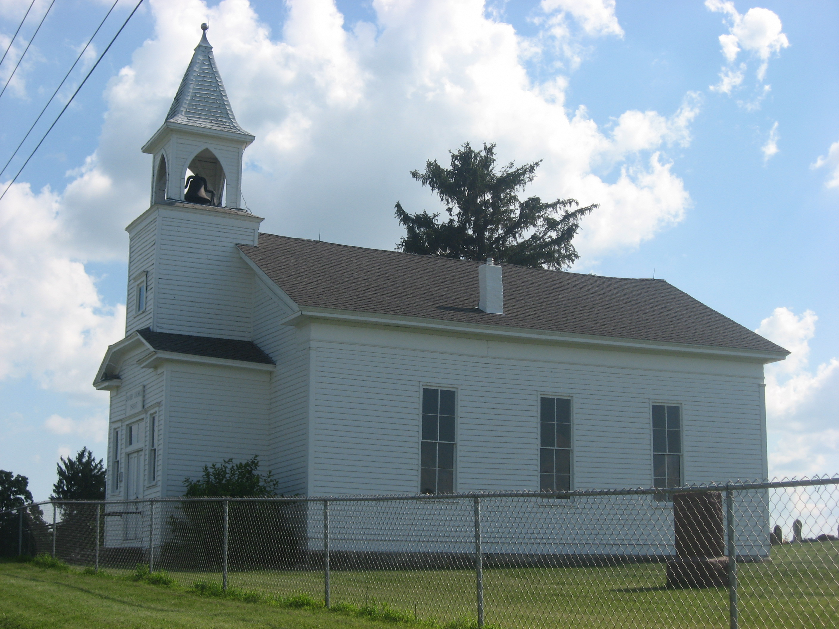 Northern side and front of the Jacoby Church, located on the western side of King Road east of Plymouth in Center Township, Marshall County, Indiana, United States. Built in 1860, it is listed on the National Register of Historic Places.